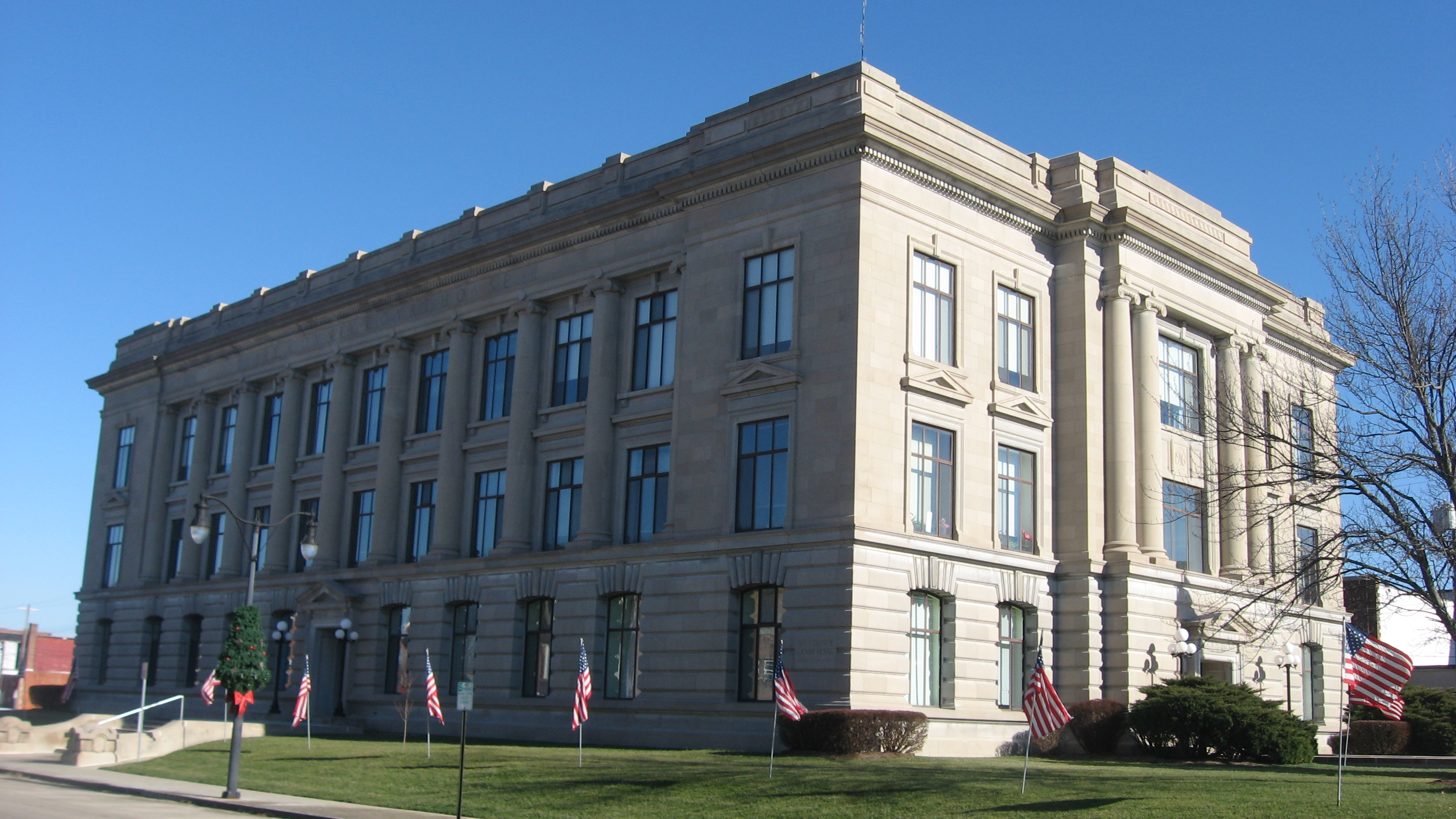 Front and western side of the Jay County Courthouse, which occupies the block bounded by Commerce, Main, Court, and Walnut Streets in downtown Portland, Indiana, United States. Built in 1916, it is listed on the National Register of Historic Places.